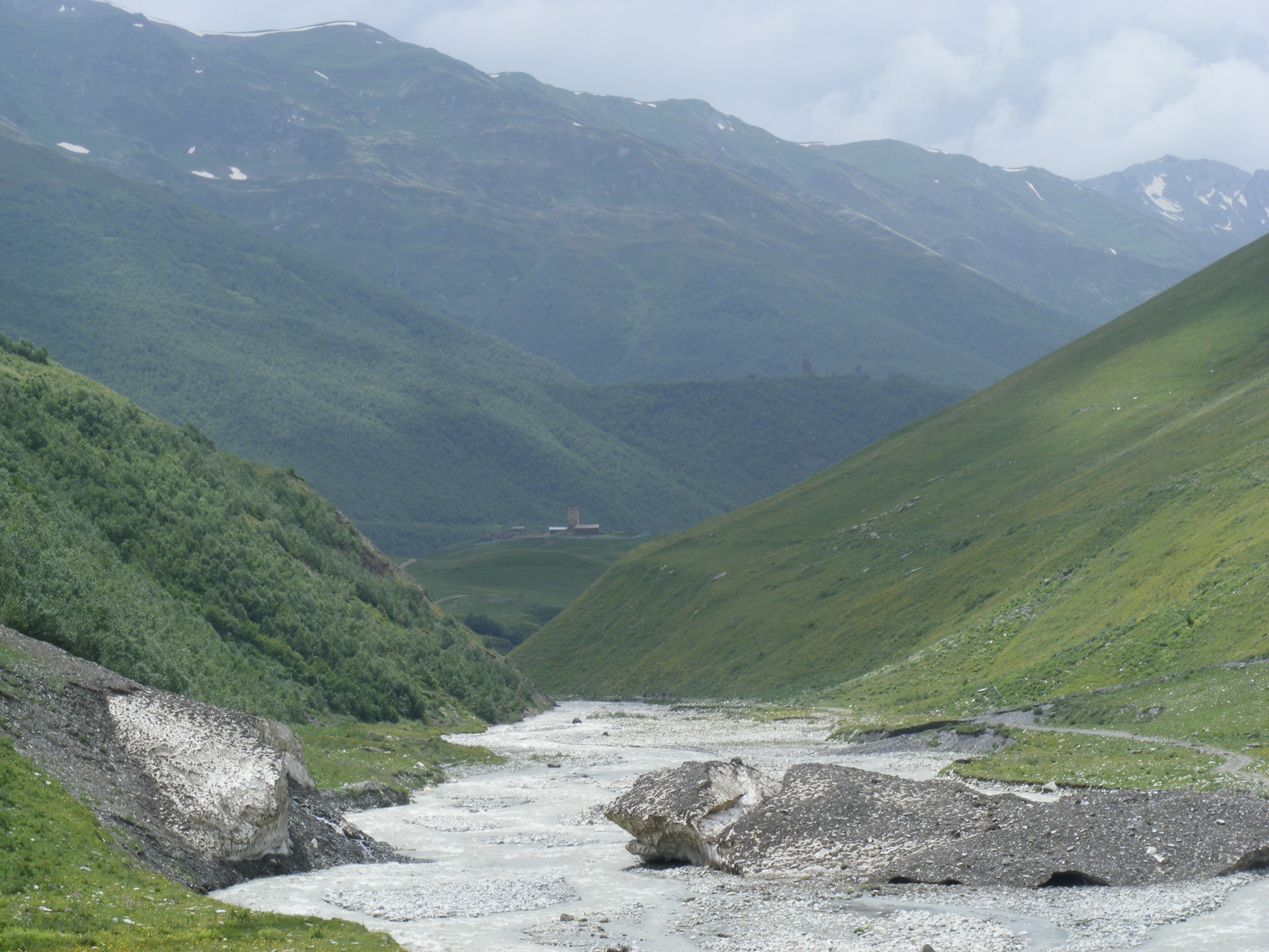 Inguri at Shkhara